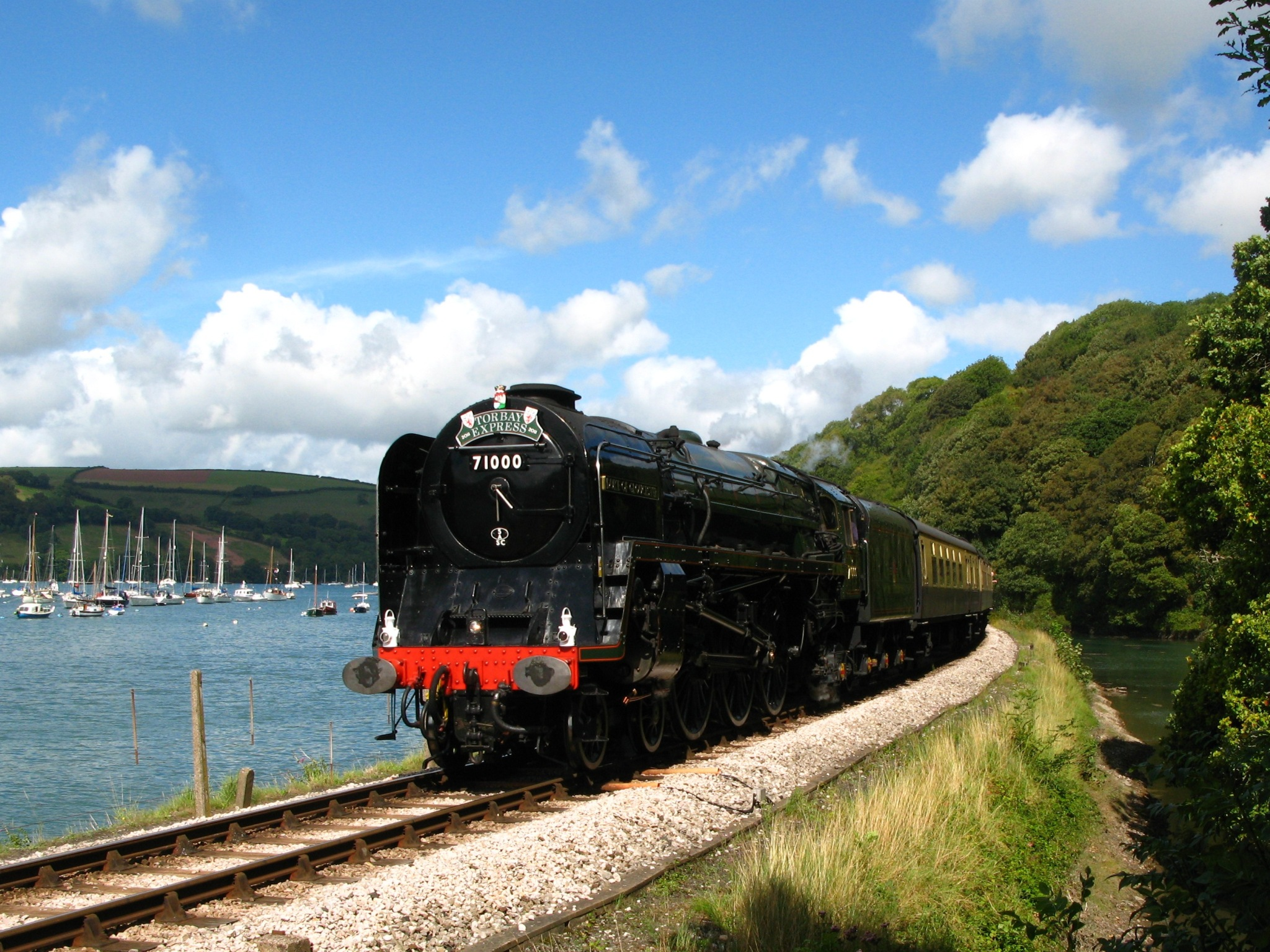 The Torbay Express, hauled by number 71000 the Duke of Gloucester, runs alongside the River Dart on the approach to Kingswear, the end of the line.